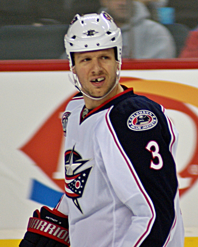 Marc Methot, born June 21, 1985 in Ottawa, Ontario, is a Canadian hockey player currently with the Columbus Blue Jackets of the National Hockey League. This NHL game action photo was taken December 13, 2010 at the Scotiabank Saddledome in Calgary, Alberta.